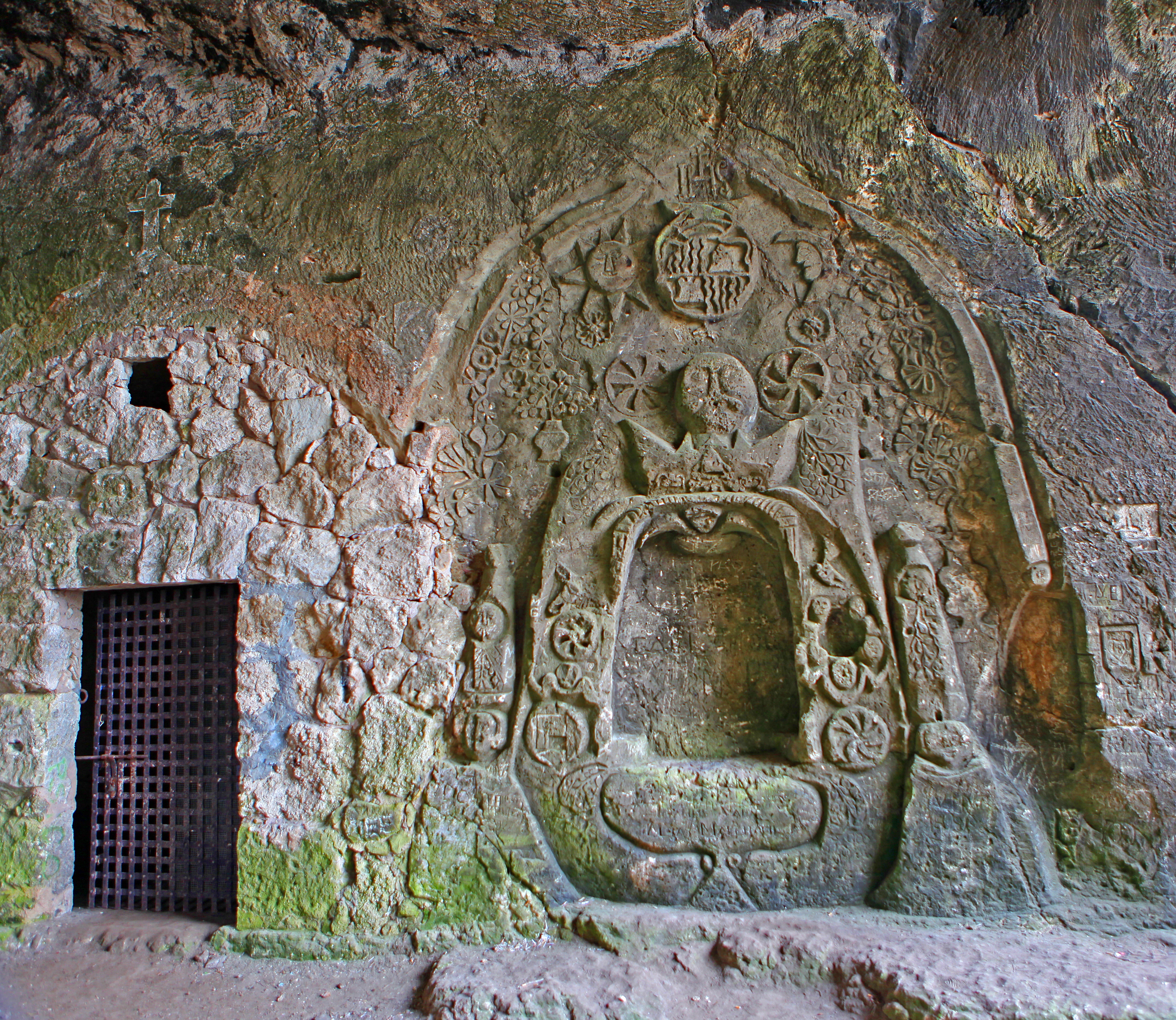 Cave in Cala Figuera West, southwestern Mallorca, Spain 2009